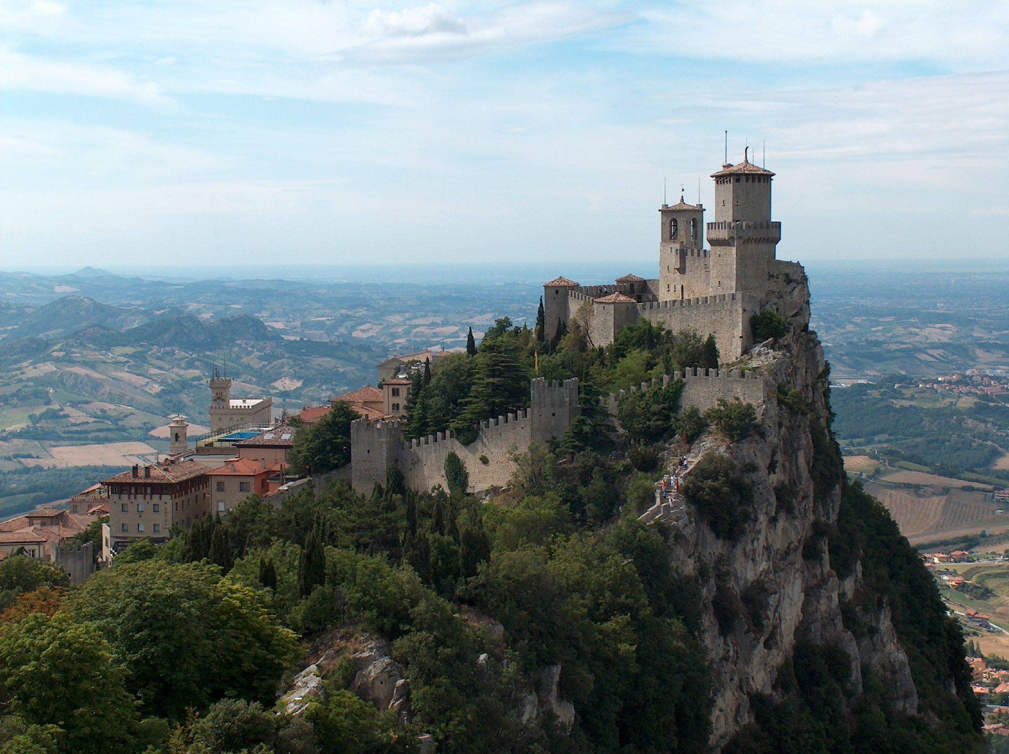 San Marino Castle, Republic of San Marino.